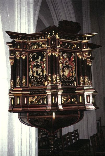 Sankt Mikkels Kirke, Slagelse